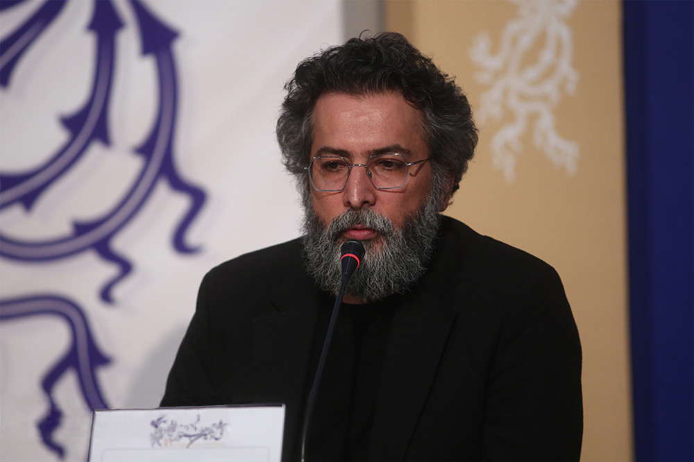 Zero Day movie press conference at the 38th edition of the Fajr Film Festival at Mellat cineplex